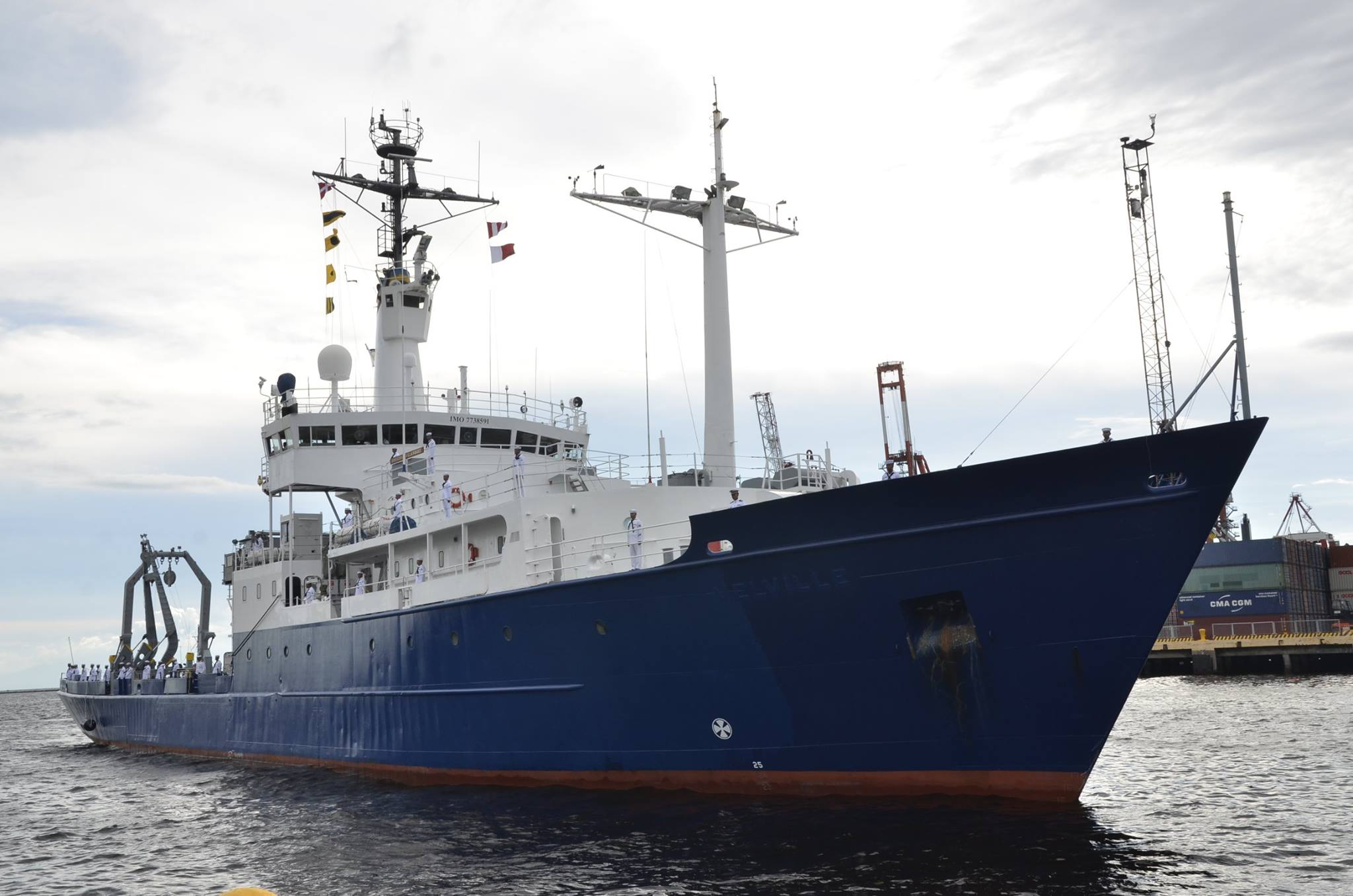 BRP Gregorio Velasquez (AGR-702), a research vessel of the Philippine Navy.